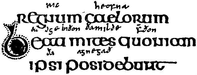 Lindisfarne Gospels or “Durham Book” in the Cottonian Library. The text is in very exactly formed half-uncials, differing but slightly from the same characters in Irish MSS.